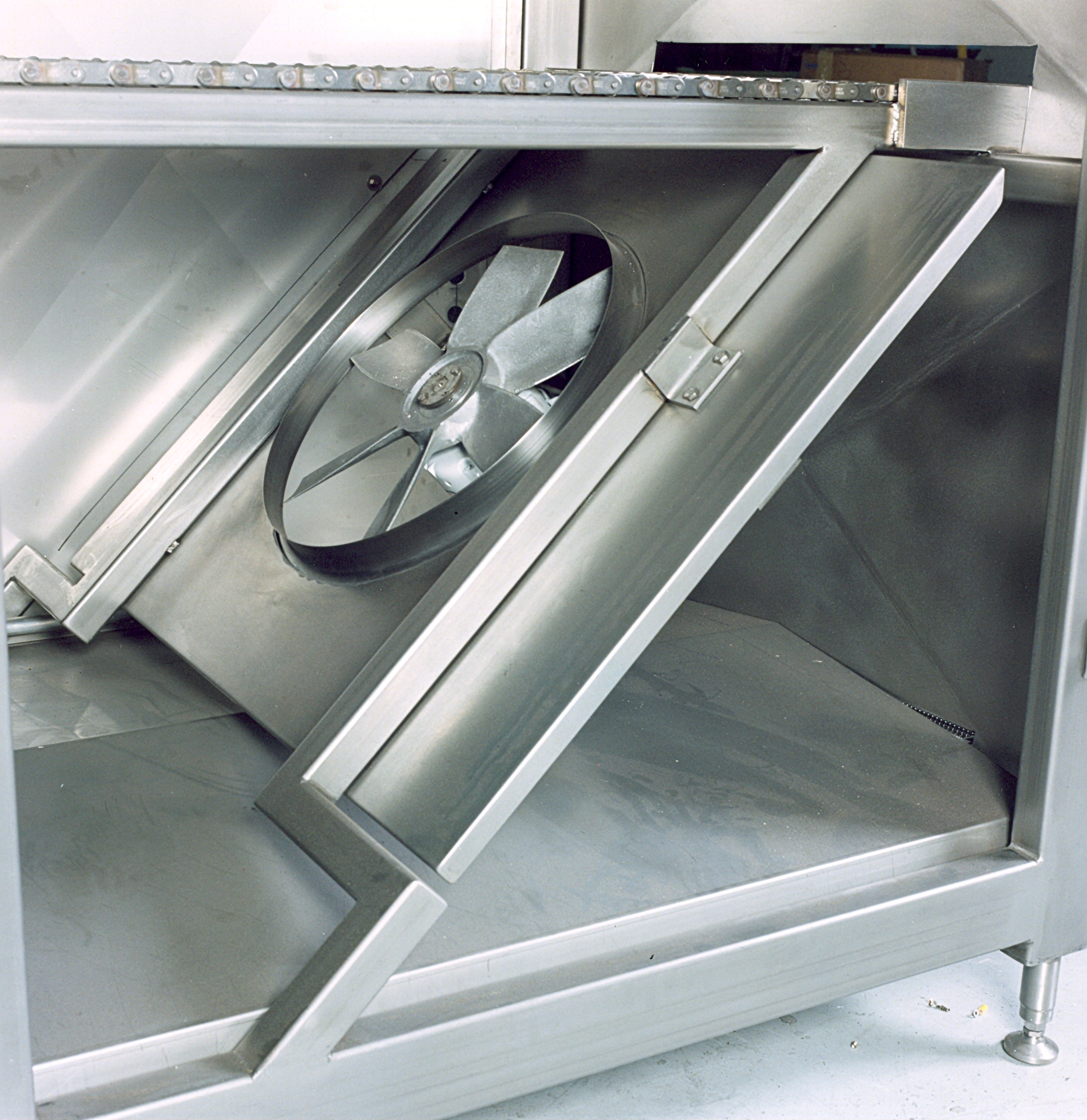 Inside detail of the dryer section of a DEMACO DTC-1000 Treatment Center for fresh pasta production. DEMACO built this machine in 1995 at its dryer production facility located at 7825A Ellis Road, Melbourne, Florida. This detail shows ground and polished welds which are typical for machines used in USDA inspected food plants. This type of smooth finish of machine surfaces facilitates daily cleaning and reduces harboring of pathogens, particularly in cracks and crevices.A treatment center consists of a steamer and a dryer, and is part of a production line to produce fresh pasta. The steamer pasteurizes the pasta using steam and the dryer removes any free moisture on the product from the steaming process. After passing through the treatment center, the pasta generally goes into a modified atmosphere package. This process and packaging typically extend the shelf life of refrigerated fresh pasta to 45 days.